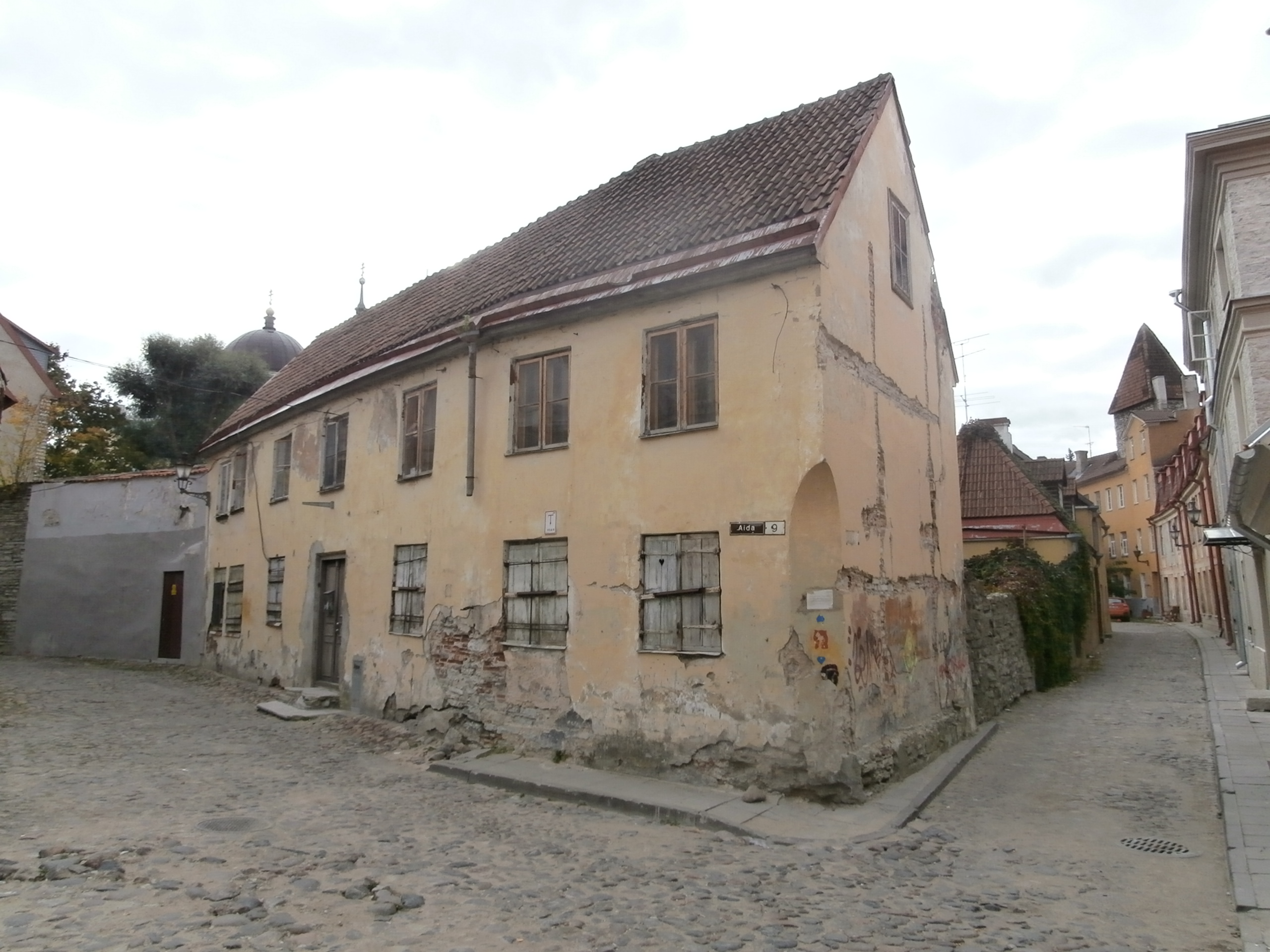 Aida 9 Tallinn 4 October 2013